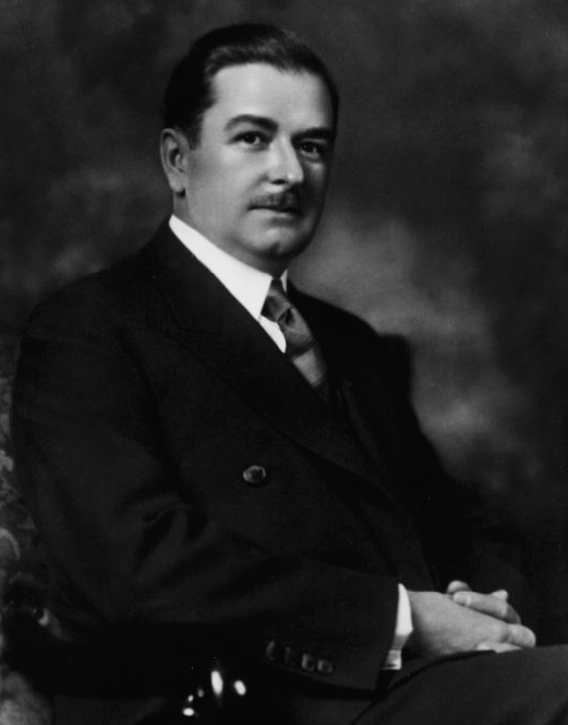 Maurice Duplessis, member of the Legislative Assembly of Quebec and leader of the National Union, before becoming Premier of Quebec. During the electoral campaign of July and August, 1936, this photograph was the photo distributed to the media and used in the electoral material of the National Union. It was also reused during the electoral campaign of 1939.